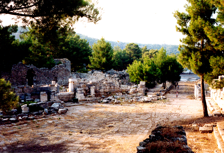 Phaselis, splendour road with "hadrianisch" agora and Byzantine church